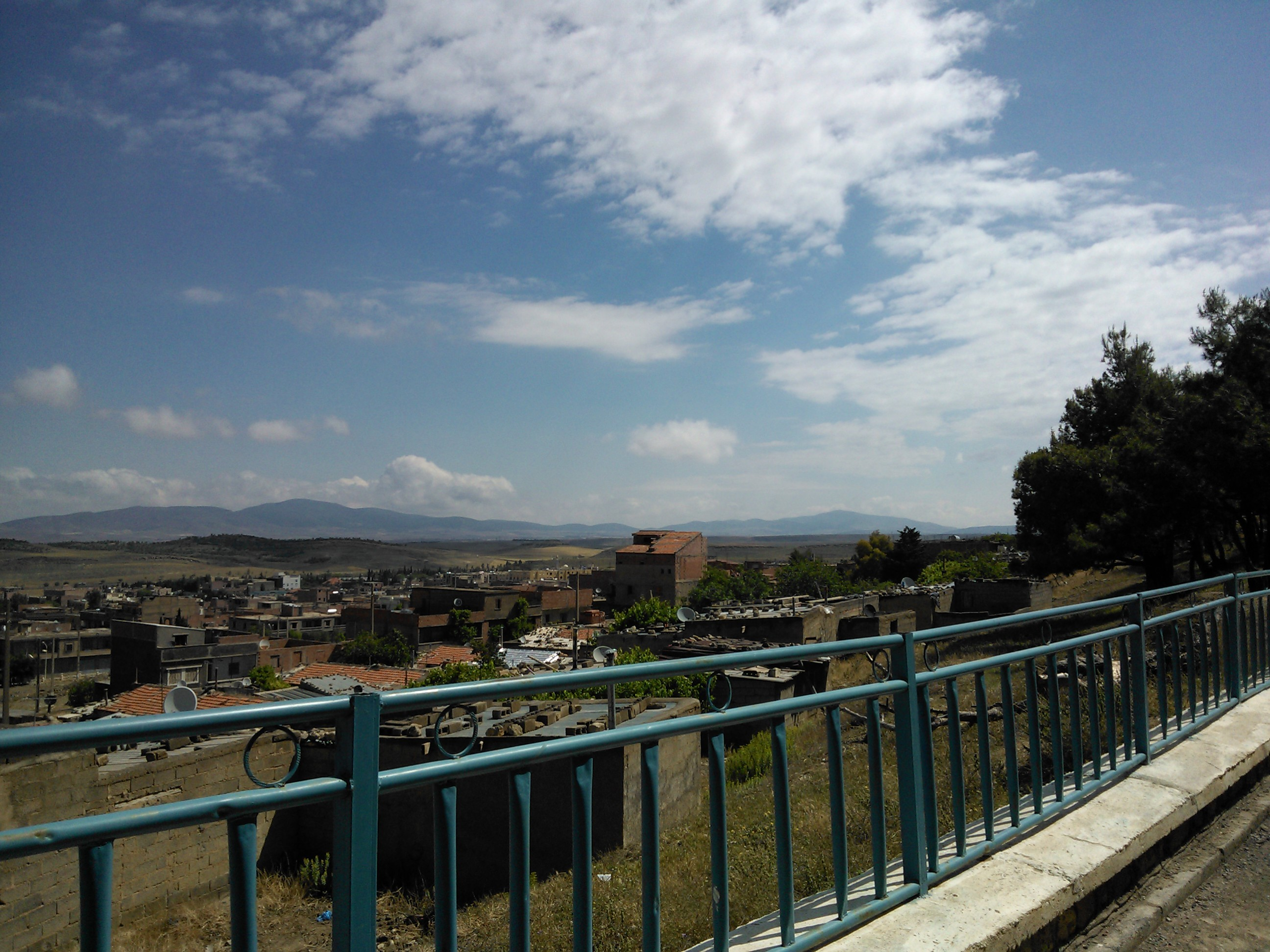 Tazoult 2014